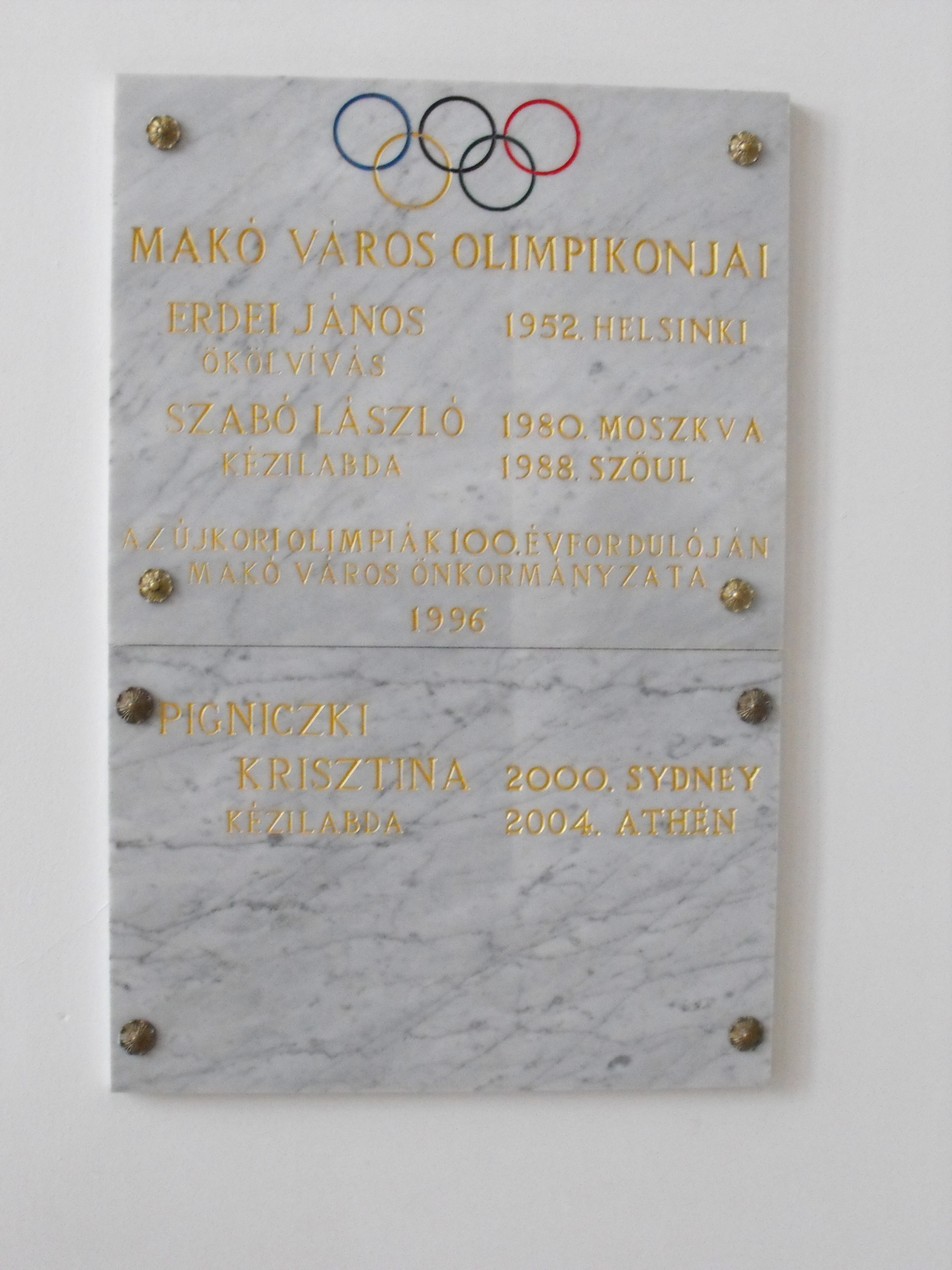 Memorial tablet of thoose sportsmen, who competed in the Olympic Games and originated from Makó, in Makó Sports Hall, Hungary.